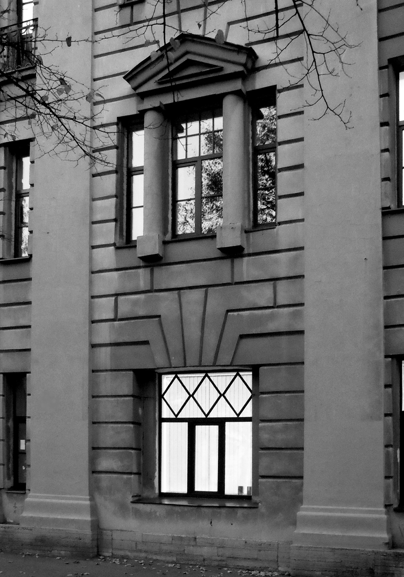 St Petersburg, Russia. Kahovskogo Lane-2. Architects - I. Fomin and E. Stalberg (1914).